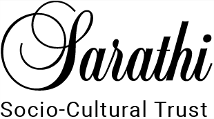 Sarathi Logo